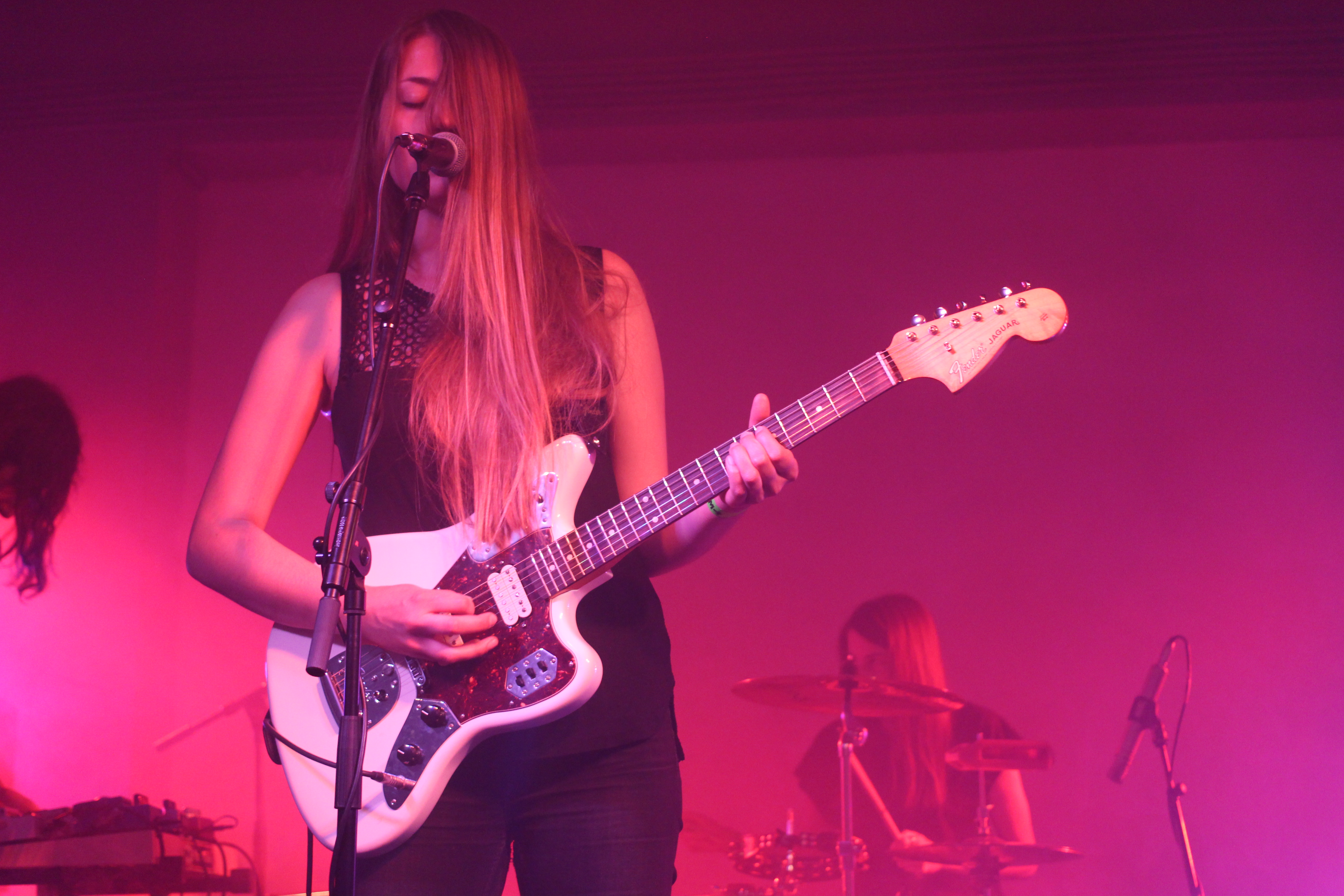 Pale Honey concert in Budapest 2015